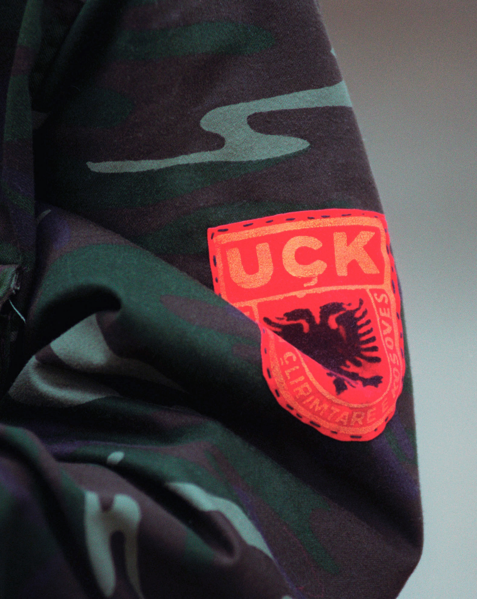 UCK or KLA (Kosovo Liberation Army) as translated in english, shoulder insignia. The Marines and sailors of the 26th Marine Expeditionary Unit (MEU) during Operation JOINT GUARDIAN are helping to enforce the implementation of the military technical agreement and to provide peace and stability to Kosovo.